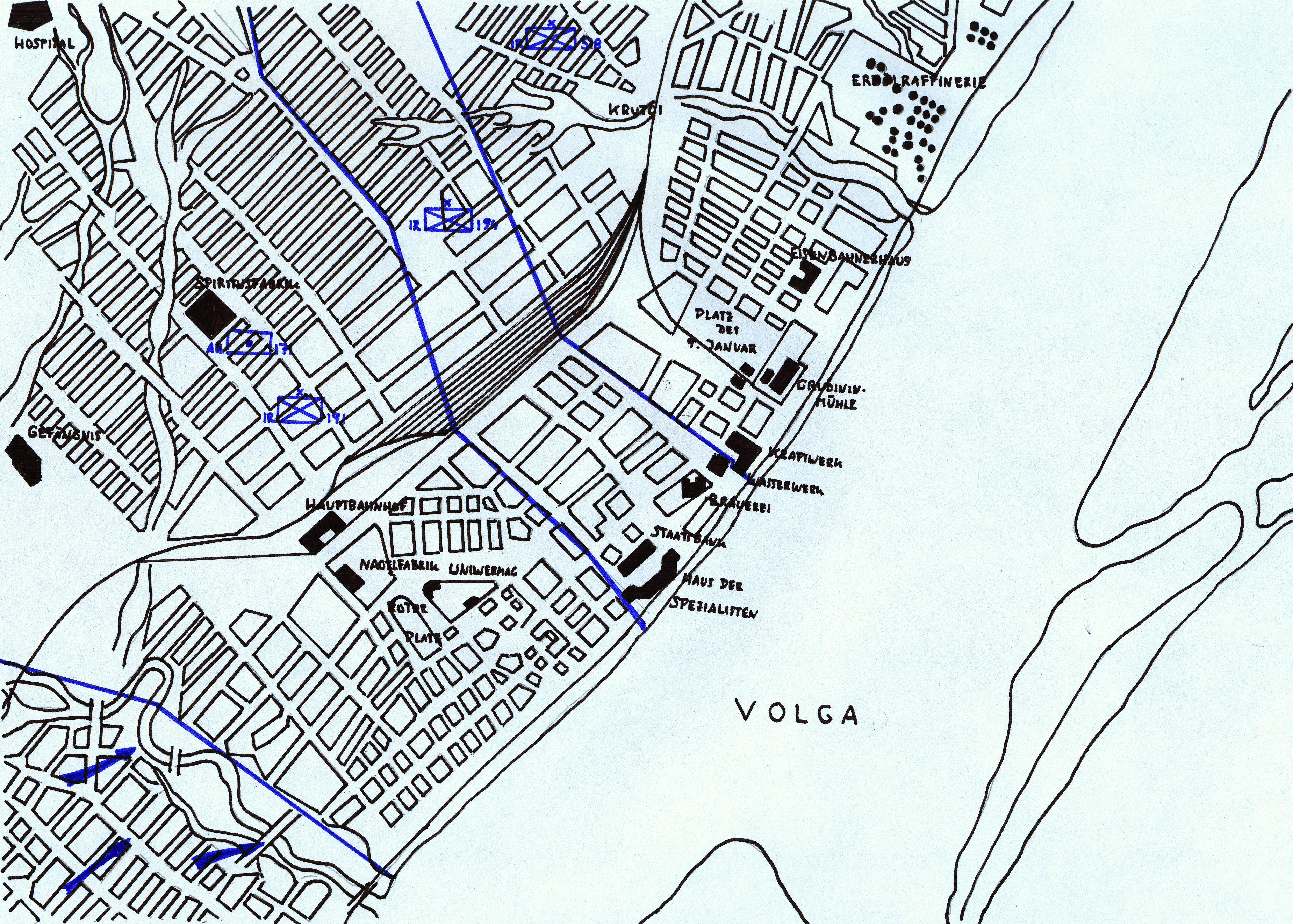 Stalingrad Centre